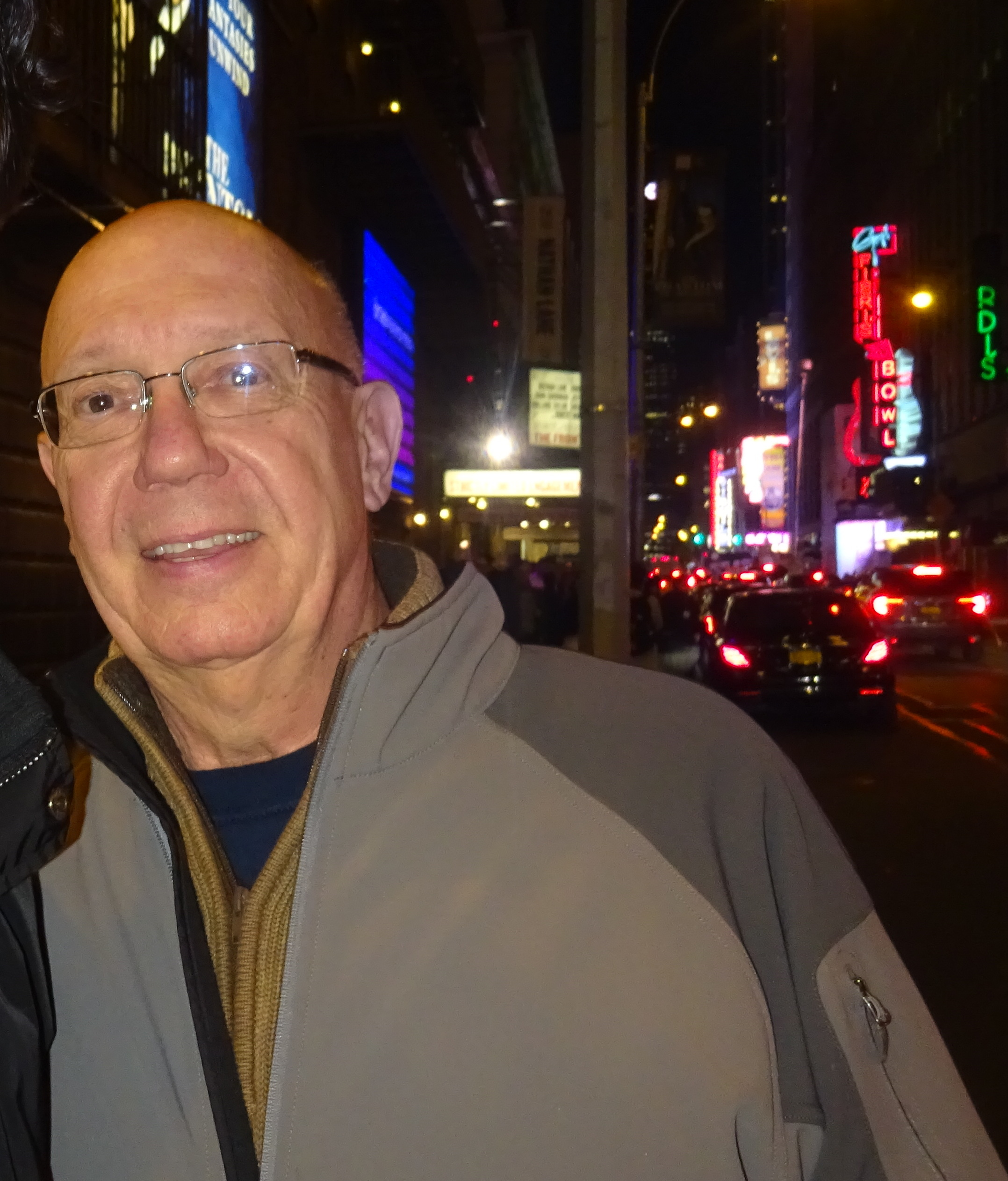 Star of Law & Order: Special Victims Unit. NYC Nov '16.